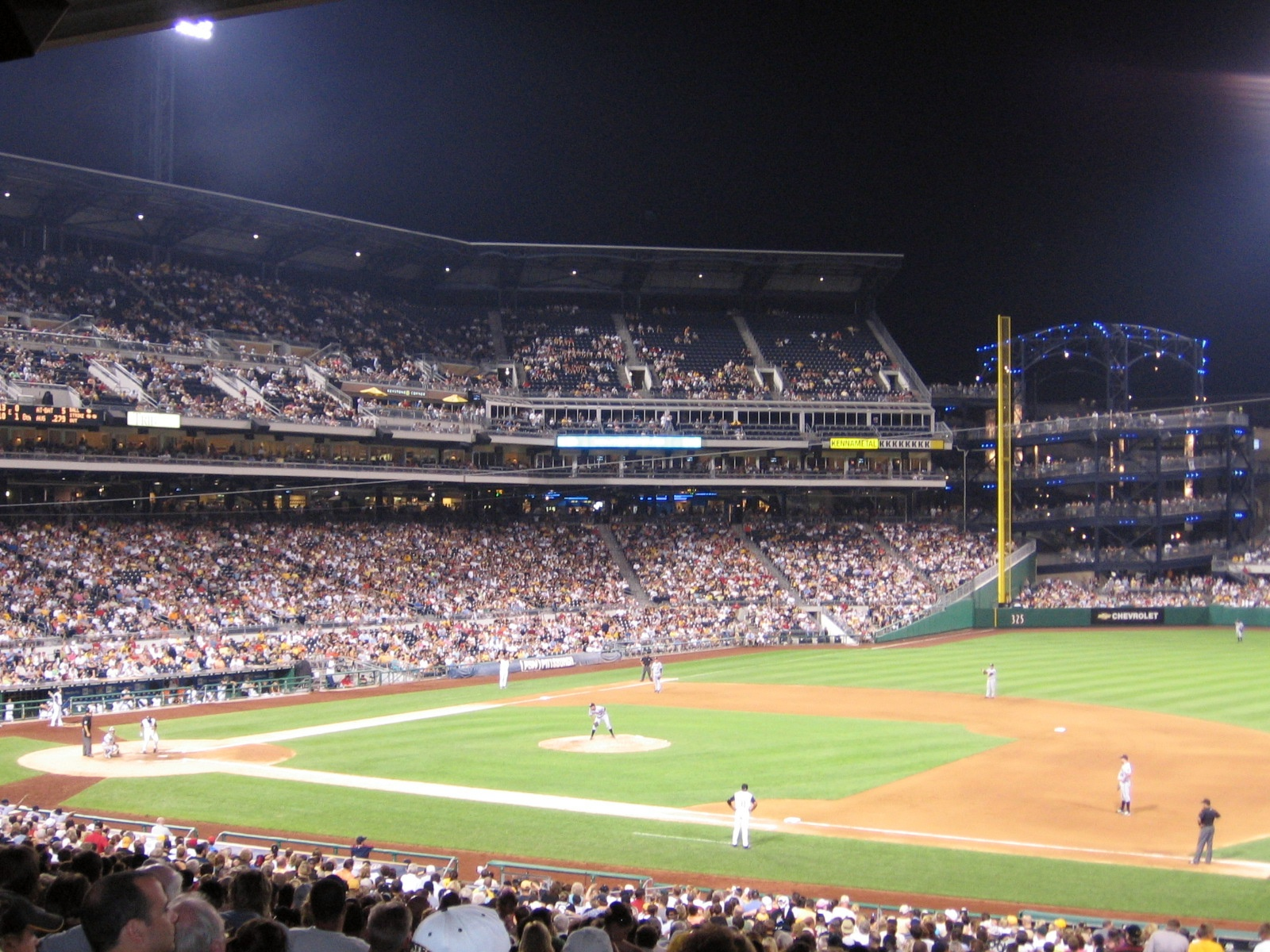 Picture of PNC Park taken by myself at the Pittsburgh Pirates - Washington Nationals game on 2006-07-15. This photo was taken with a Canon Powershot A520 and edited in Corel Photo Album 6.